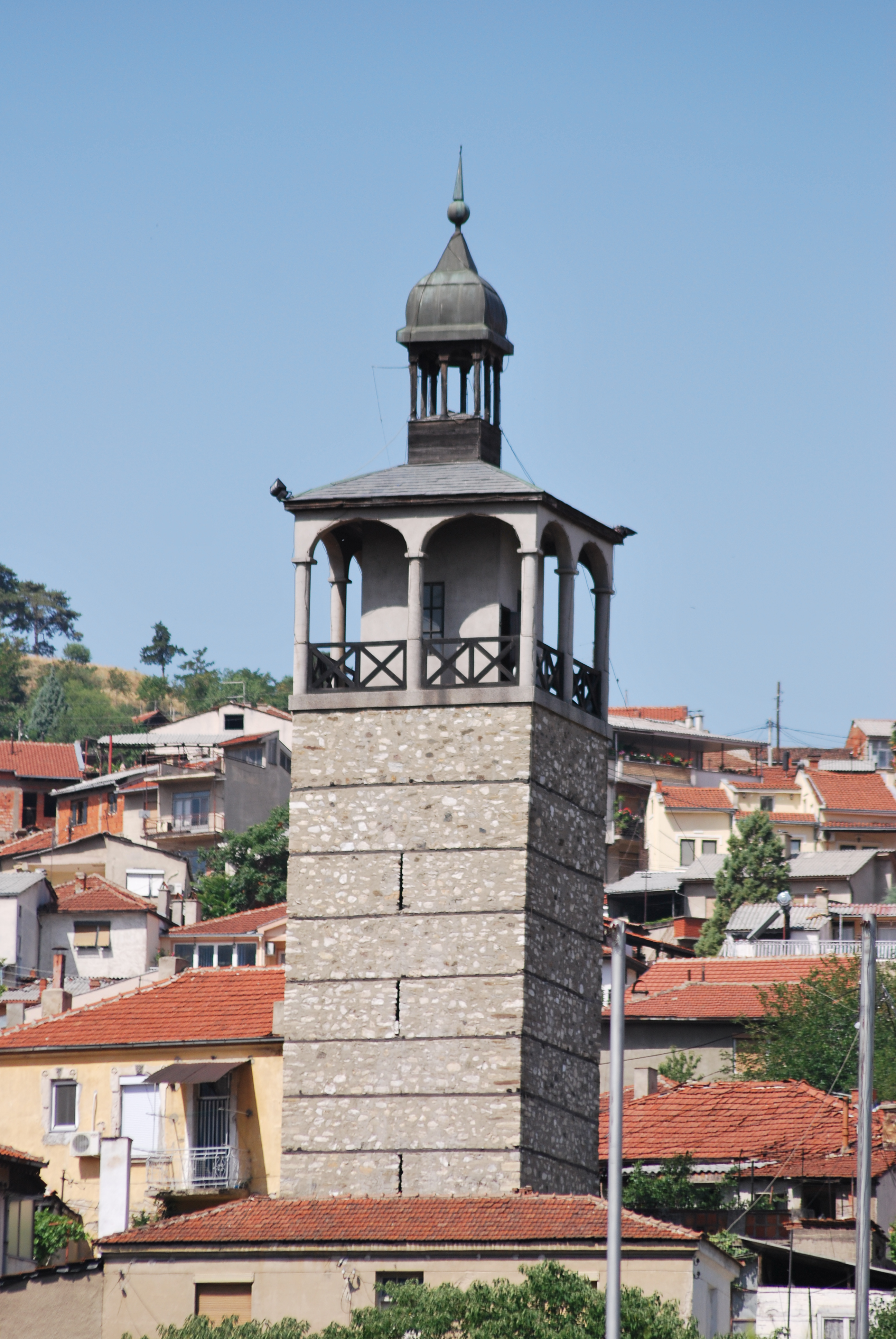 IVeles Clock Tower, Macedonia